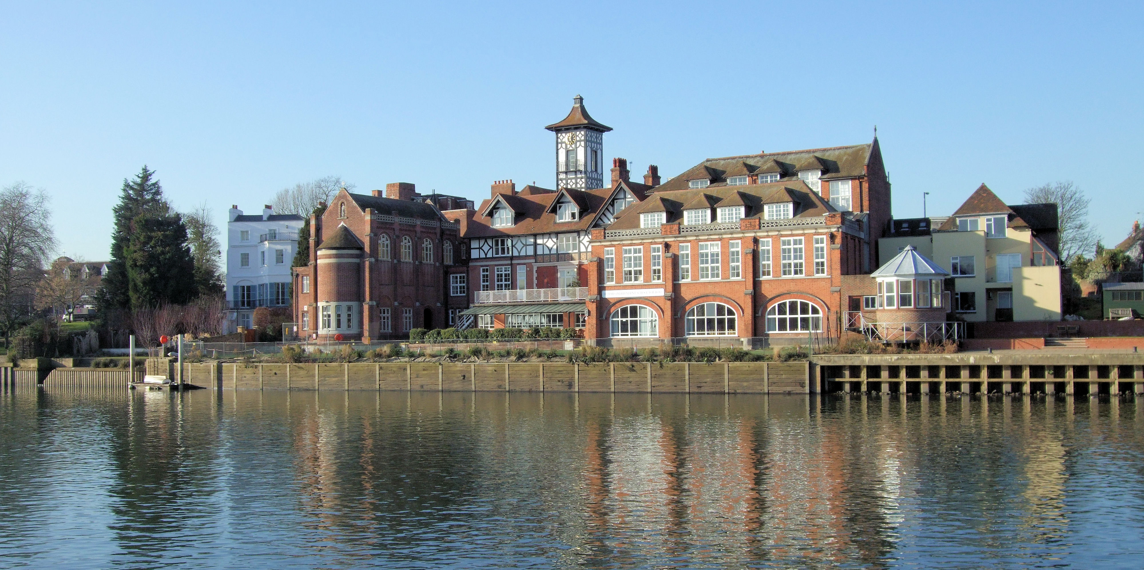 St James Independent Schools are three schools. The photograph is of the school for senior boys at Pope’s Villa, 19 Cross deep, Twickenham, Middlesex TW1 4QG.